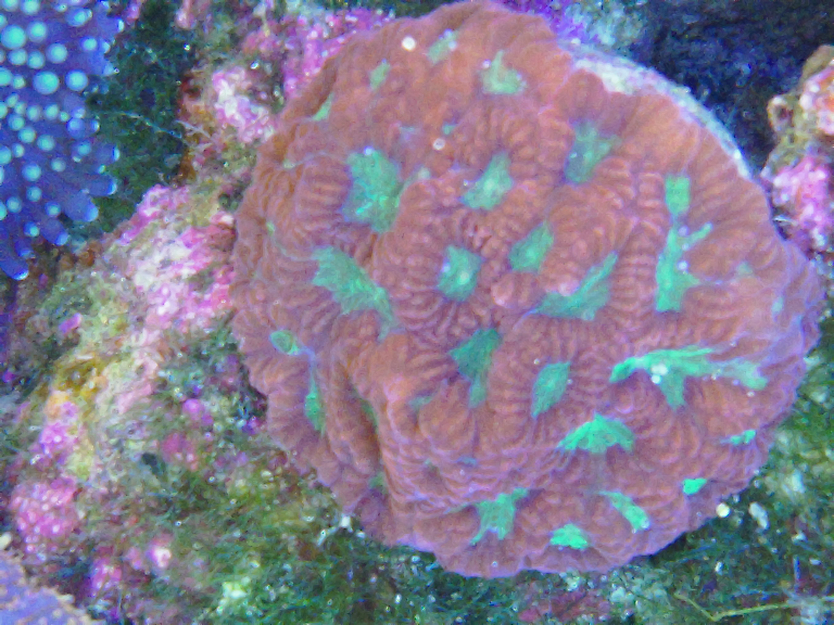 War Coral